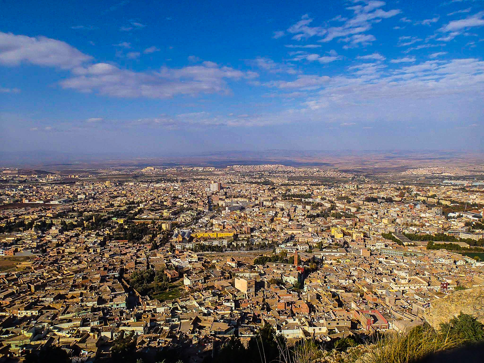 Picture of Tlemcen taken from Lala Setti.